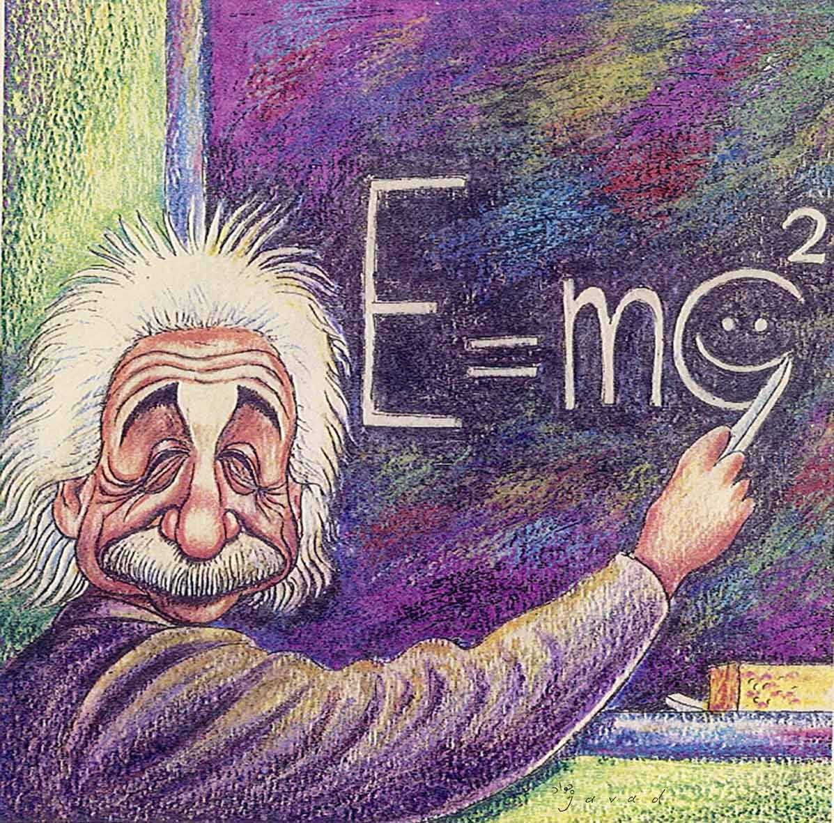 Amazing Formula, a work by Javad Alizadeh, Iranian artist.